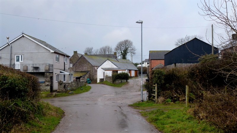 Street and houses in the hamlet of Llechfaen, Powys